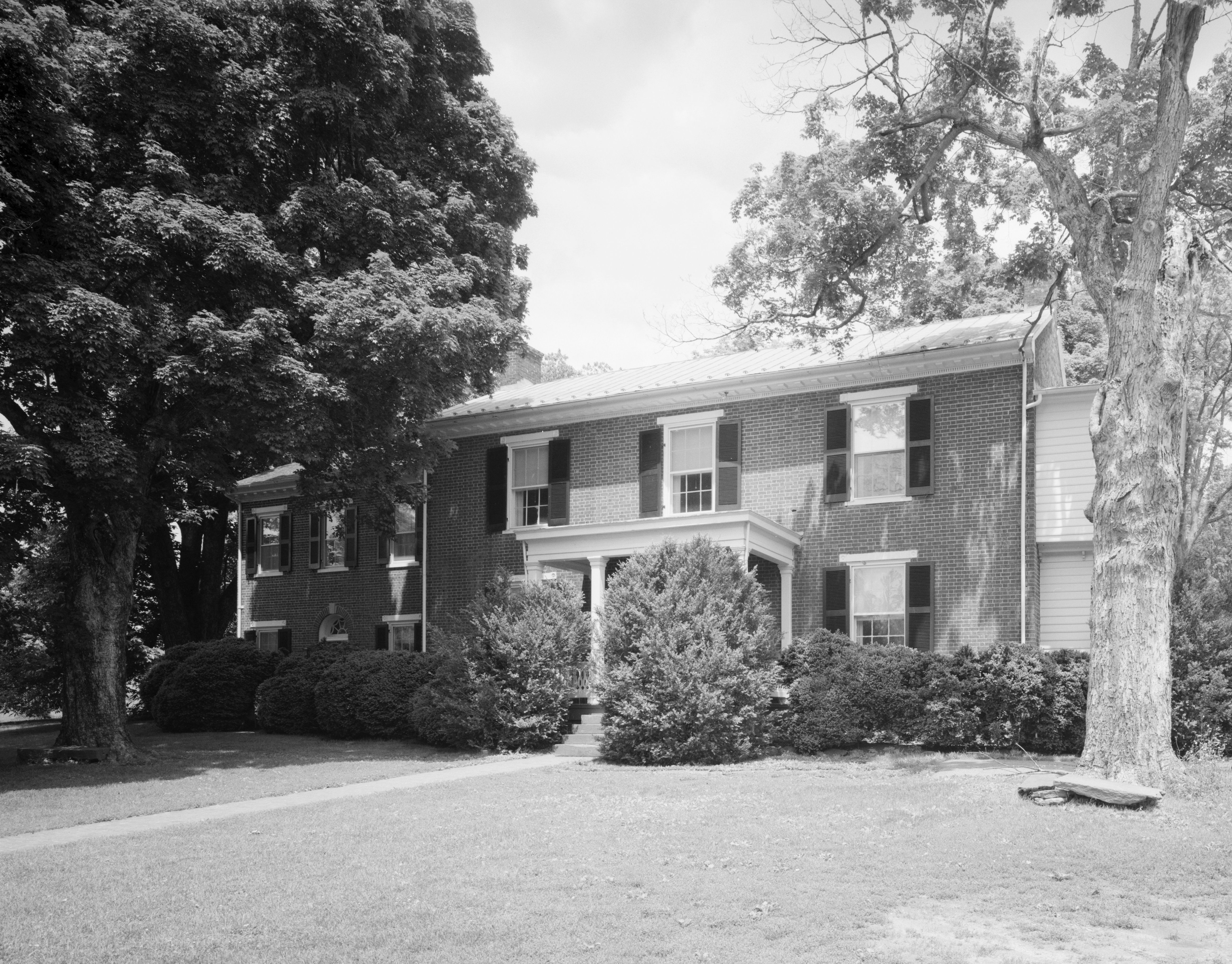 GENERAL VIEW OF FACADE - Rosedale, Old Graves Mill Road, Lynchburg, Lynchburg, VA